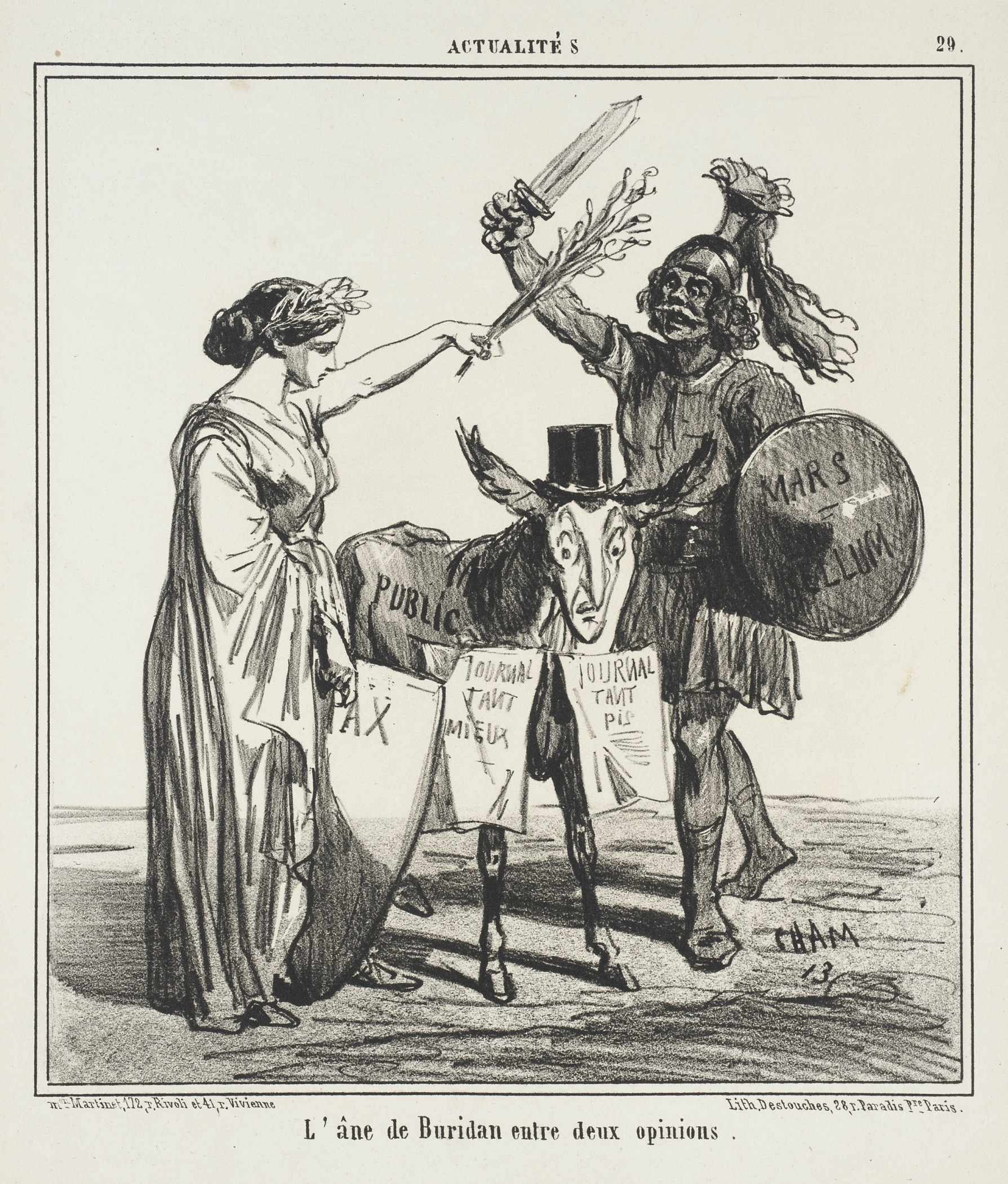 France, 1859 Series: Actualites Periodical: Le Charivari, Friday, 29 April 1859 Prints; lithographs Lithograph Gift of George Longstreet (M.76.132.425) Prints and Drawings